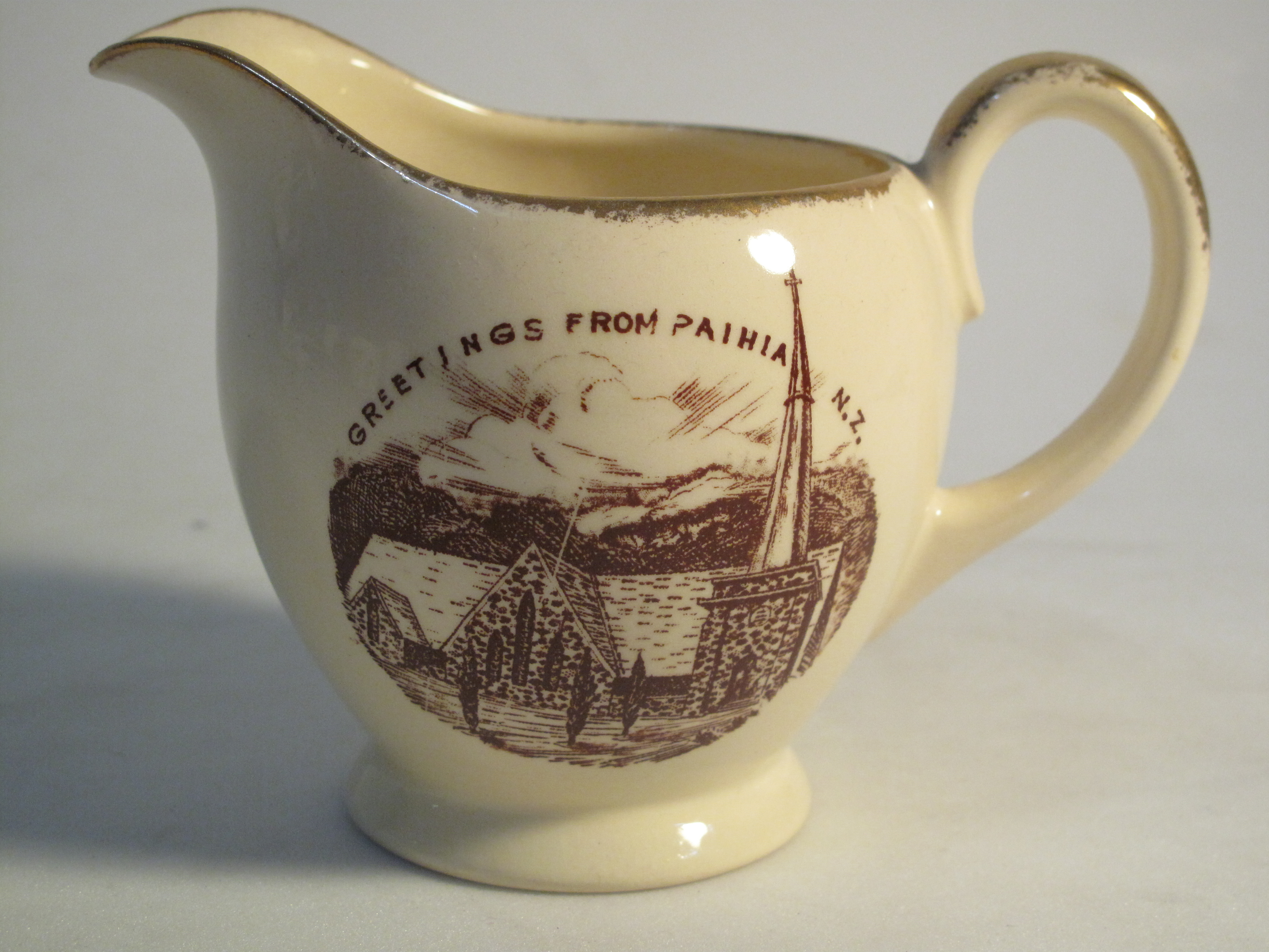 Milk jug, souvenir, transfer print